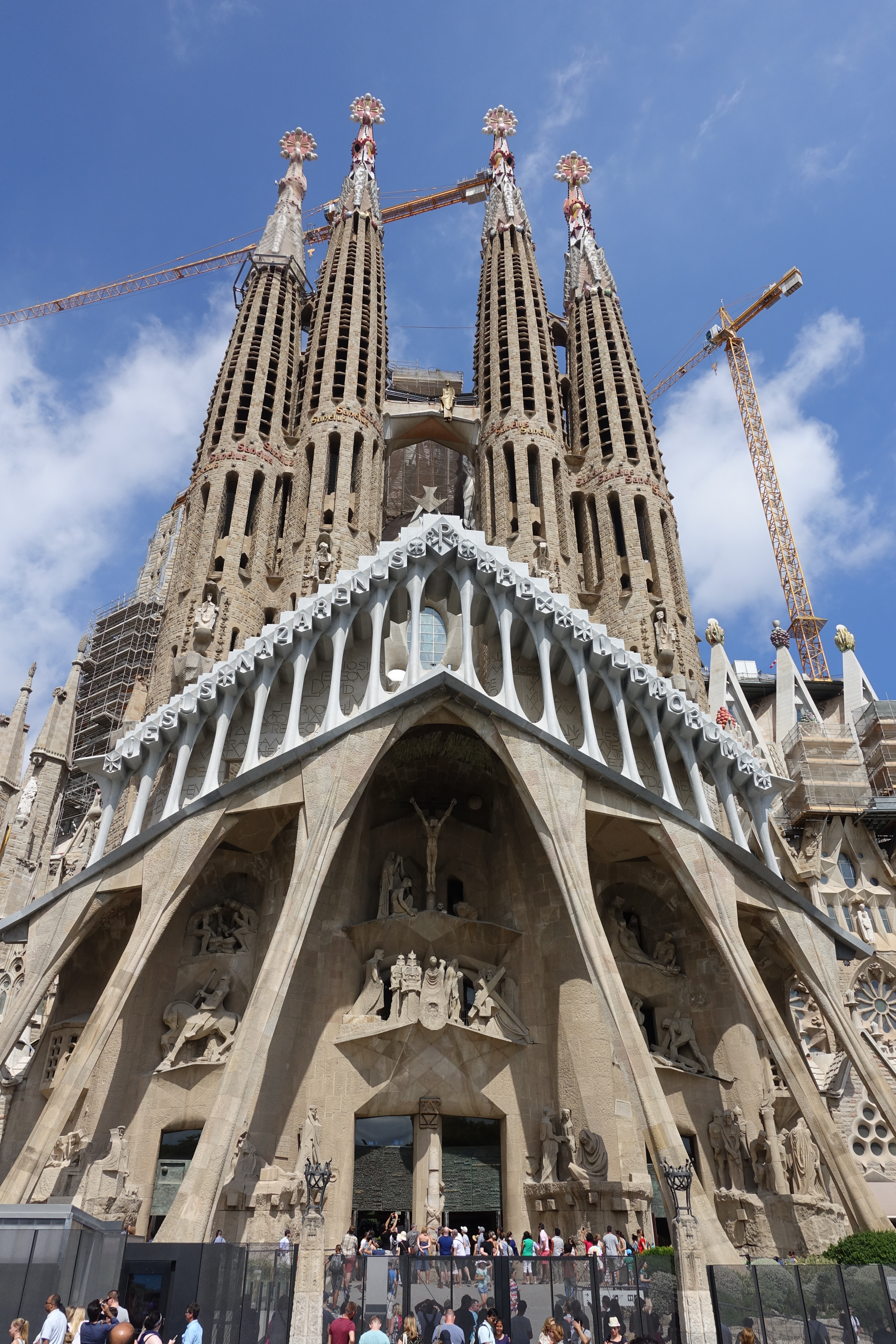 Passion Facade of the Sagrada Família, Barcelona, Spain.